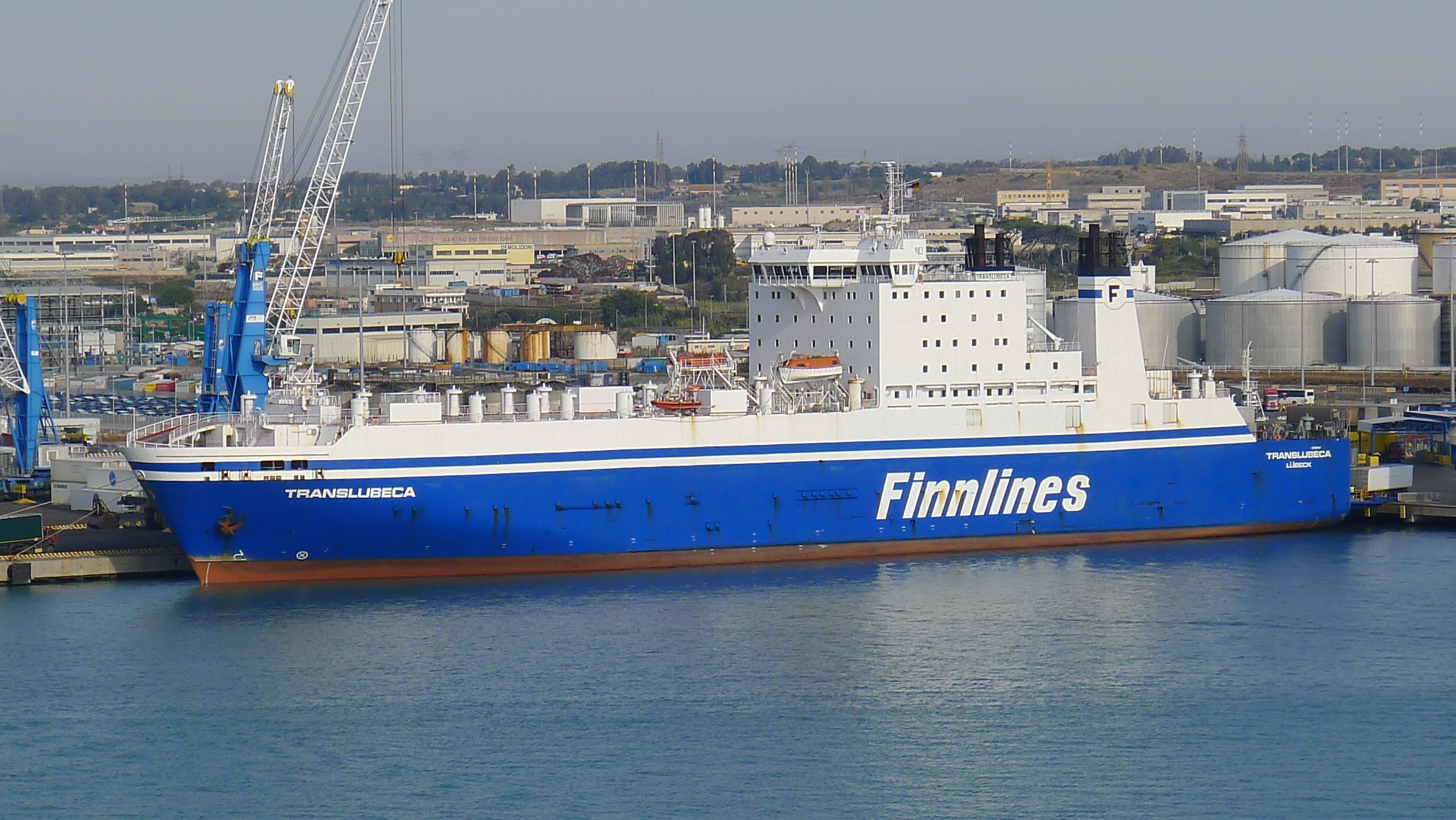 Translubeca